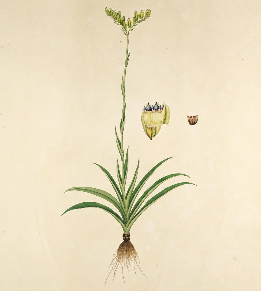 Illustration of Burmannia disticha